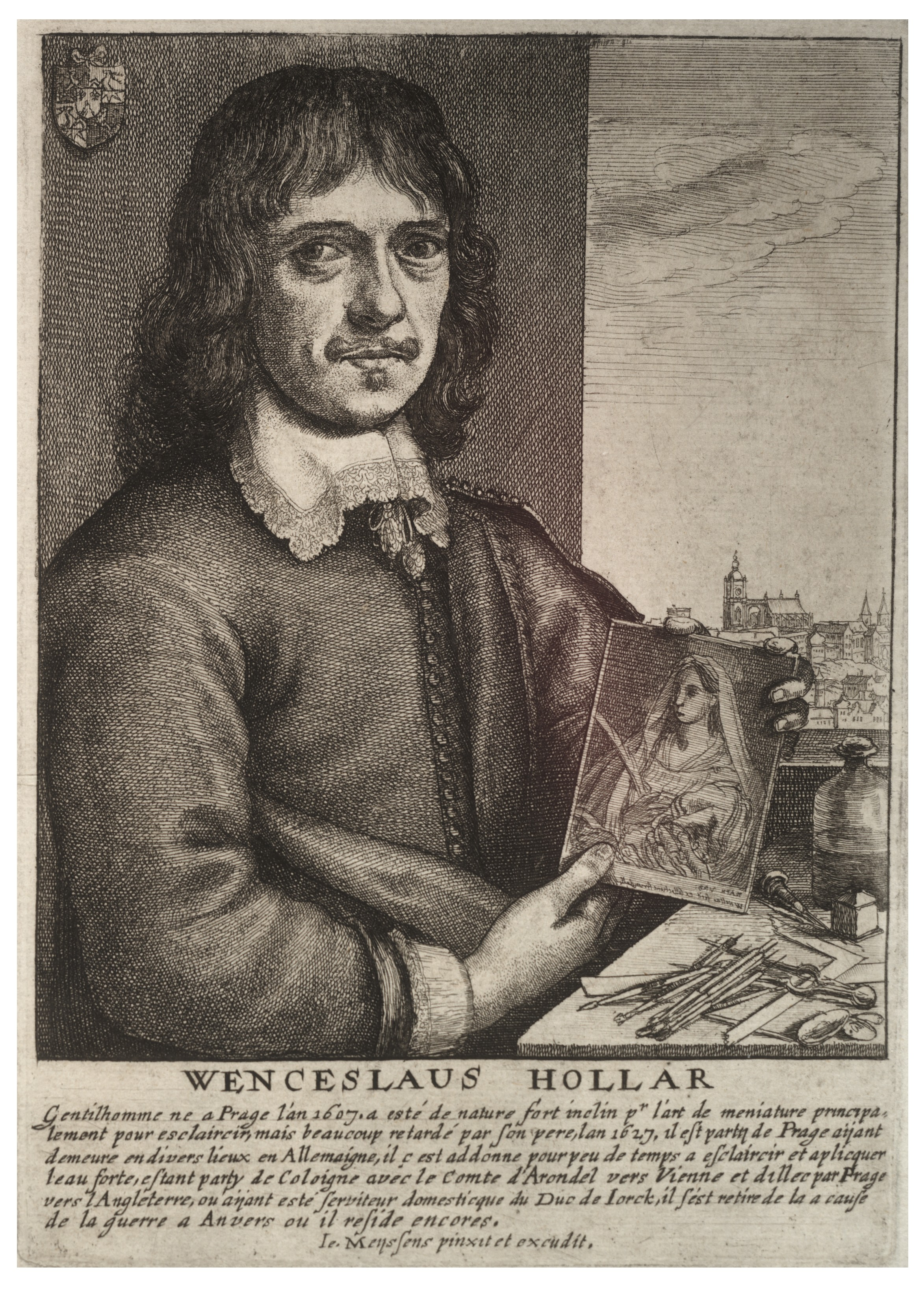 Portrait of Wenzel Hollar. Engraving.